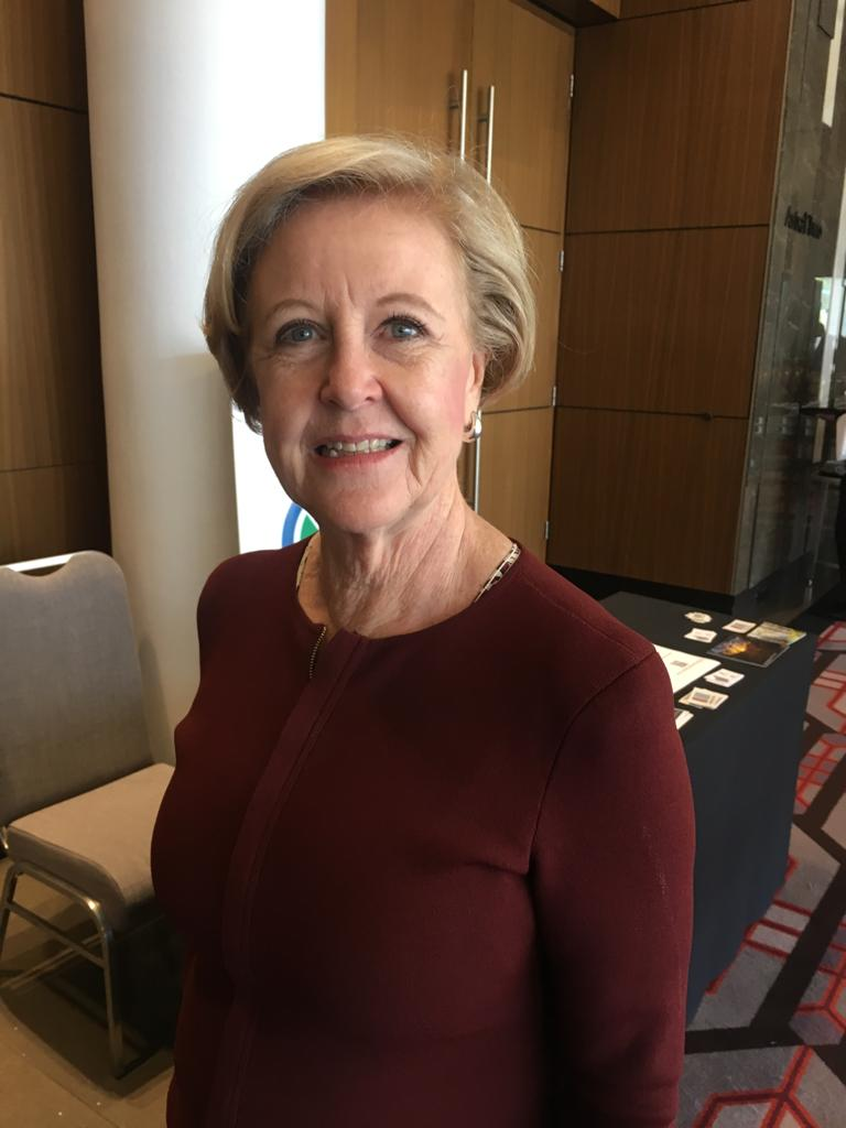 Professor Gillian Triggs in Perth, 25 09 2018